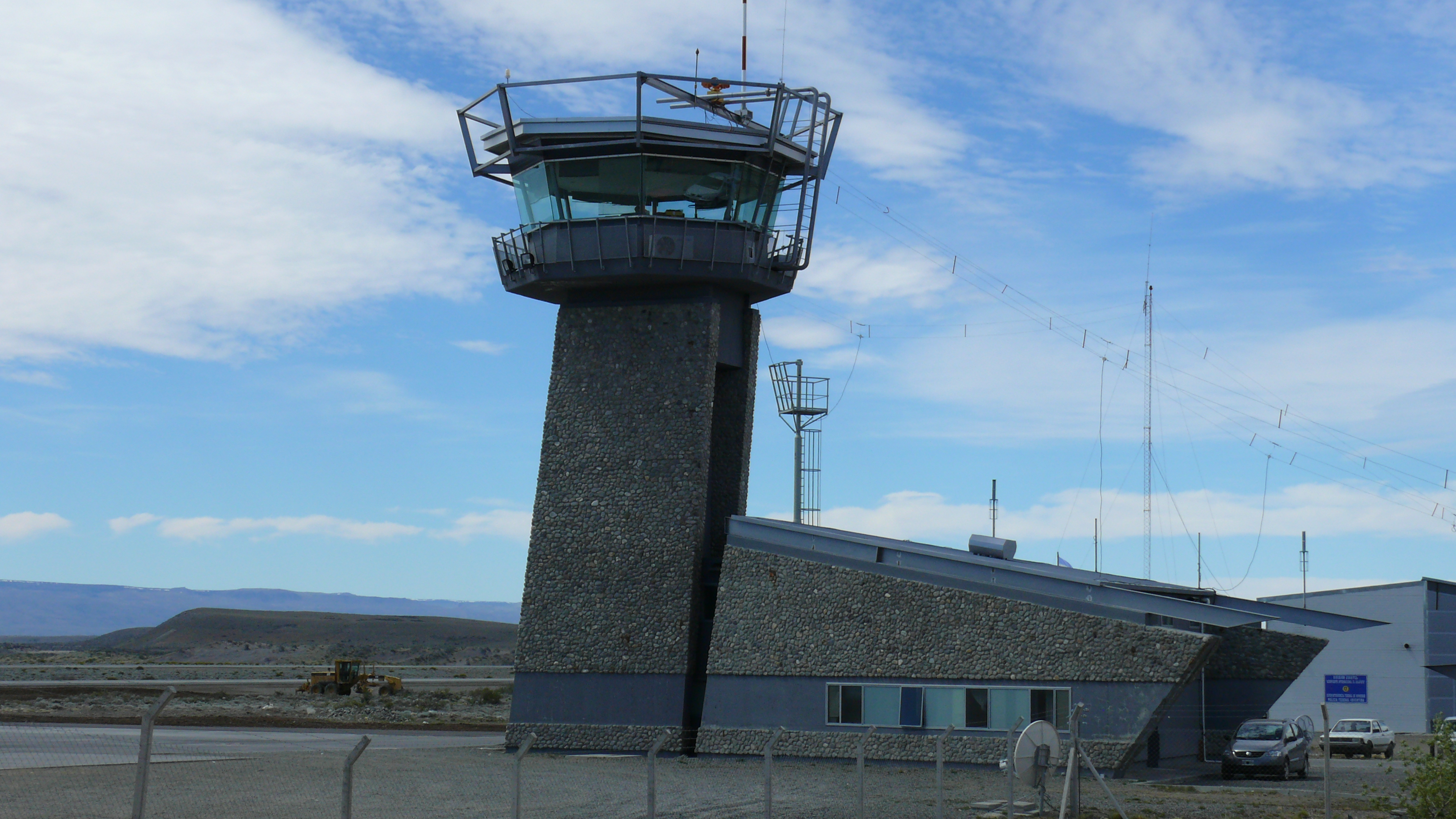 El Calafate airport, control tower